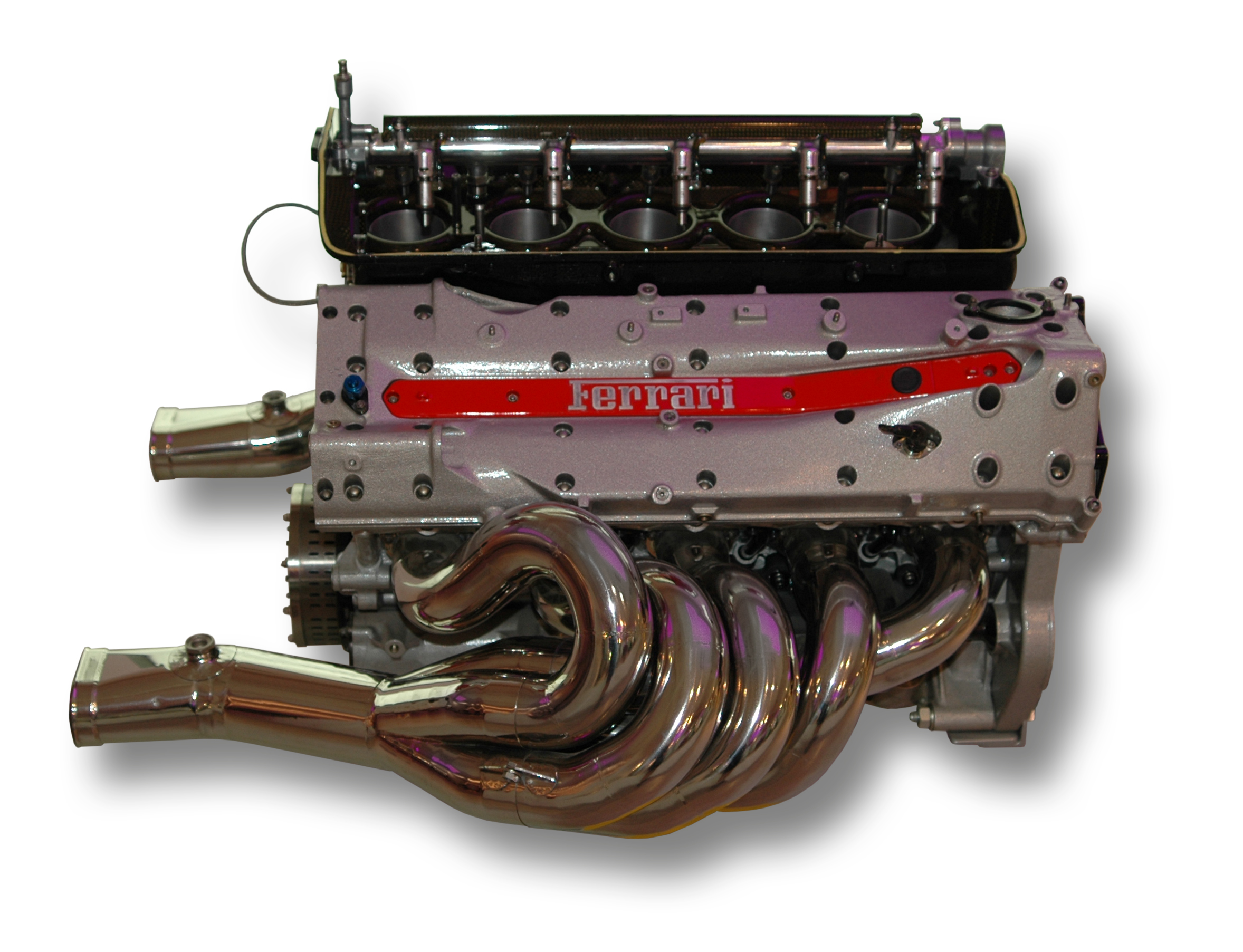 1997 Ferrari 046/2 engine